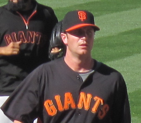 Dan Runzel, Guillermo Mota, Ramon Ramirez and other San Francisco Giants players on the field before opening day of the 2011 season at the Los Angeles Dodgers